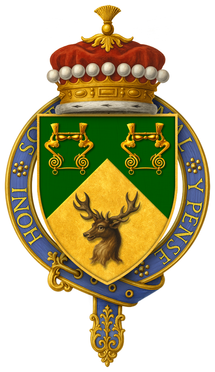 Garter-encircled shield of arms of Alfred Milner, 1st Viscount Milner, KG, as displayed on his Order of the Garter stall plate in St. George's Chapel.